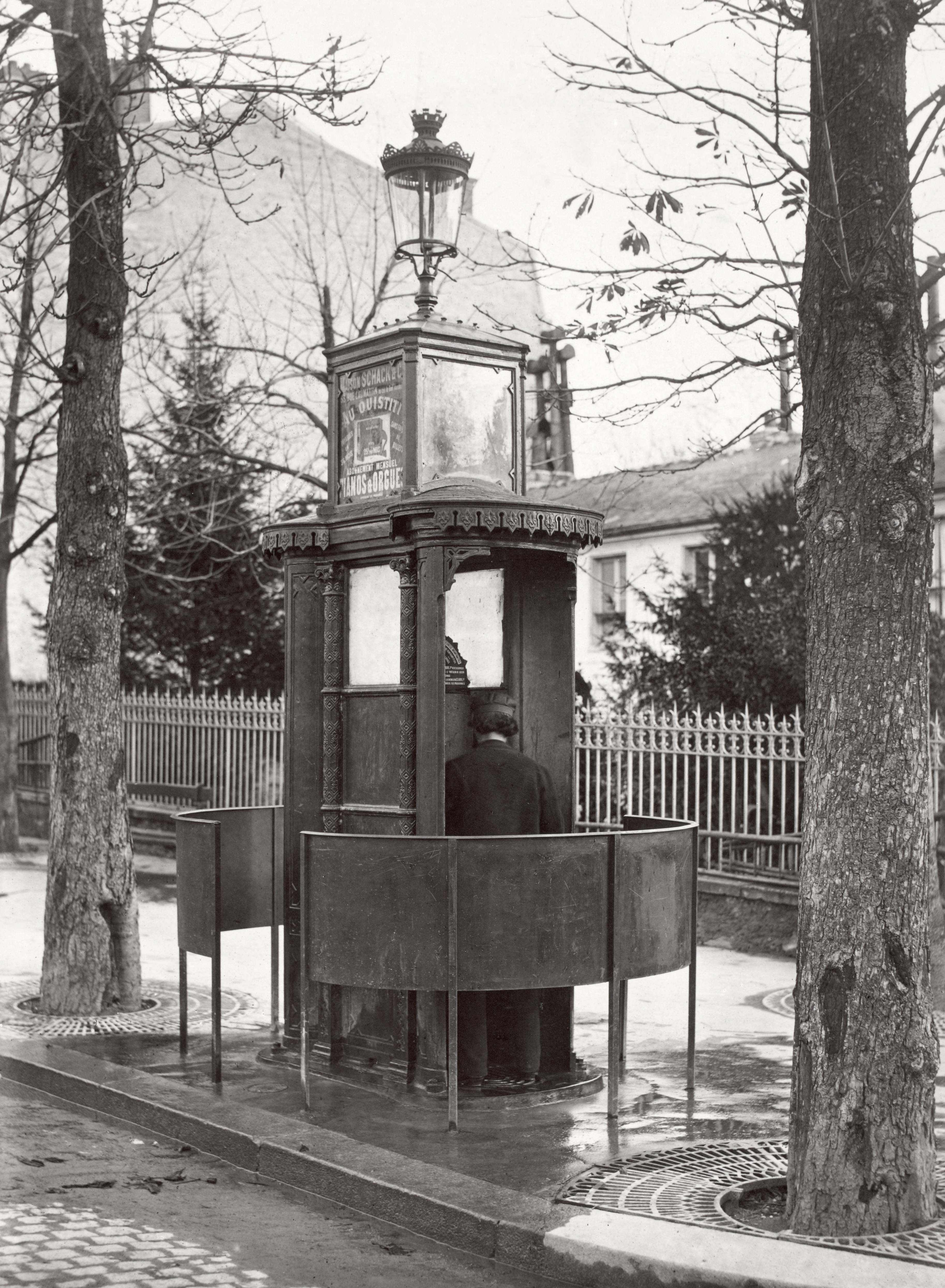 Cast iron urinal with screen encircled by raised modesty screen, panel of advertising displays on top with lamp stand and lantern. Man standing in one of the stalls.